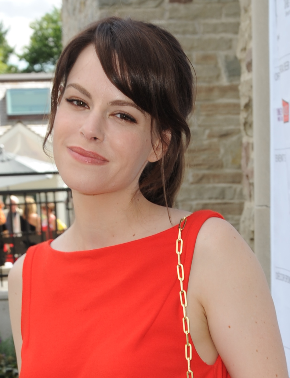 Emily Hampshire. The Canadian Film Centre (CFC) Annual BBQ was held on Sept. 9, 2012 in Toronto, Ontario in celebration of Canadian Talent at the 2012 Toronto International Film Festival. Learn more about the Annual BBQ by visiting To find out more about the Canadian Film Centre, please visit: Photo by Tom Sandler Photography